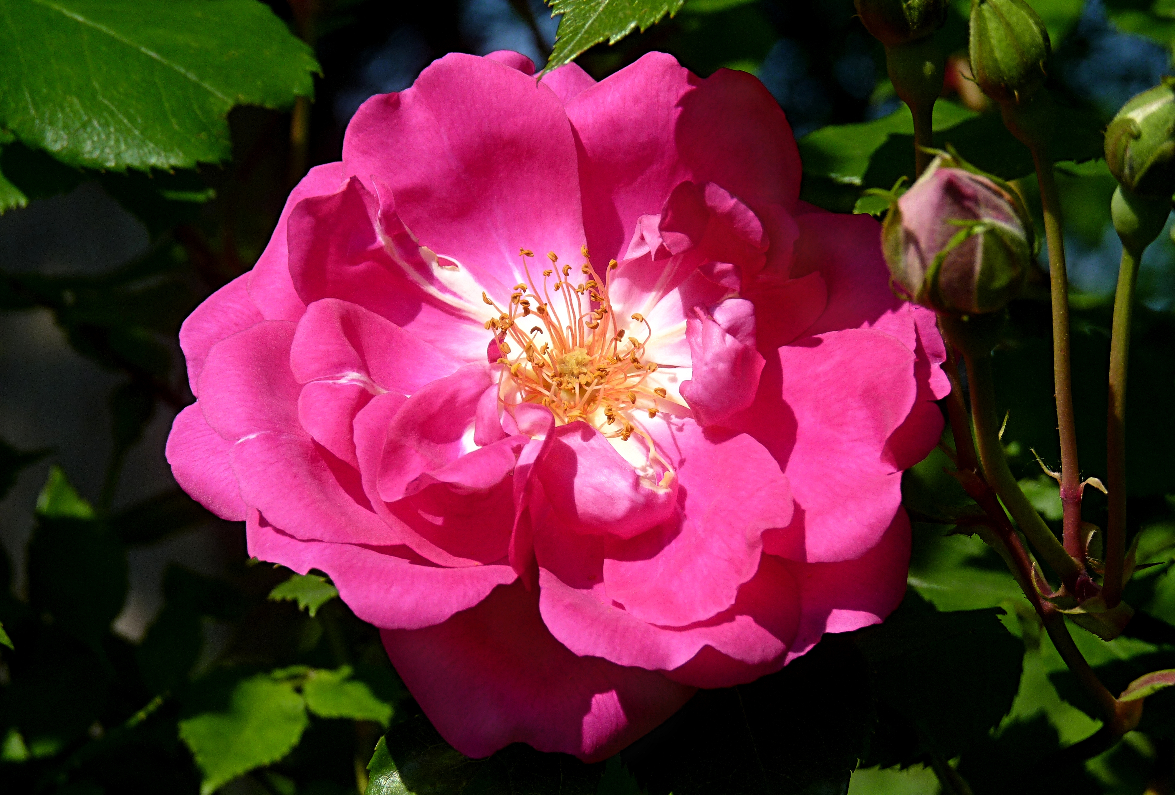 Rosa 'Madame Solvay' (André Eve, 1992), in the international rose garden of Kortrijk, Belgium.